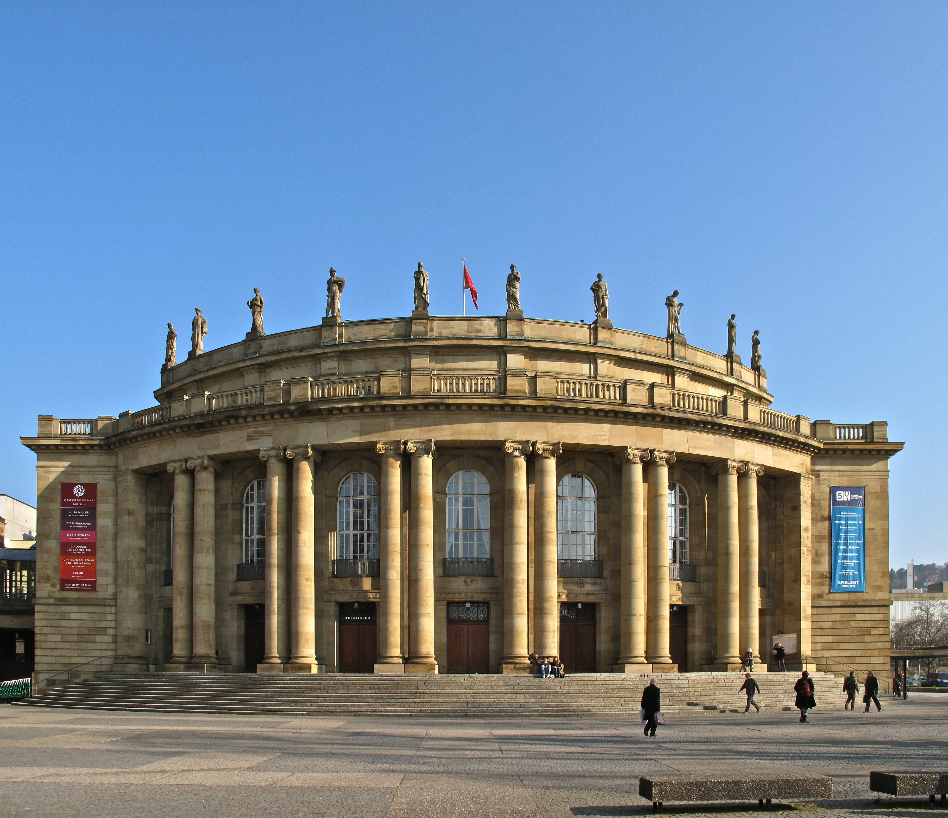 The Staatstheater Stuttgart in the Schlossgarten in the city centre of Stuttgart.